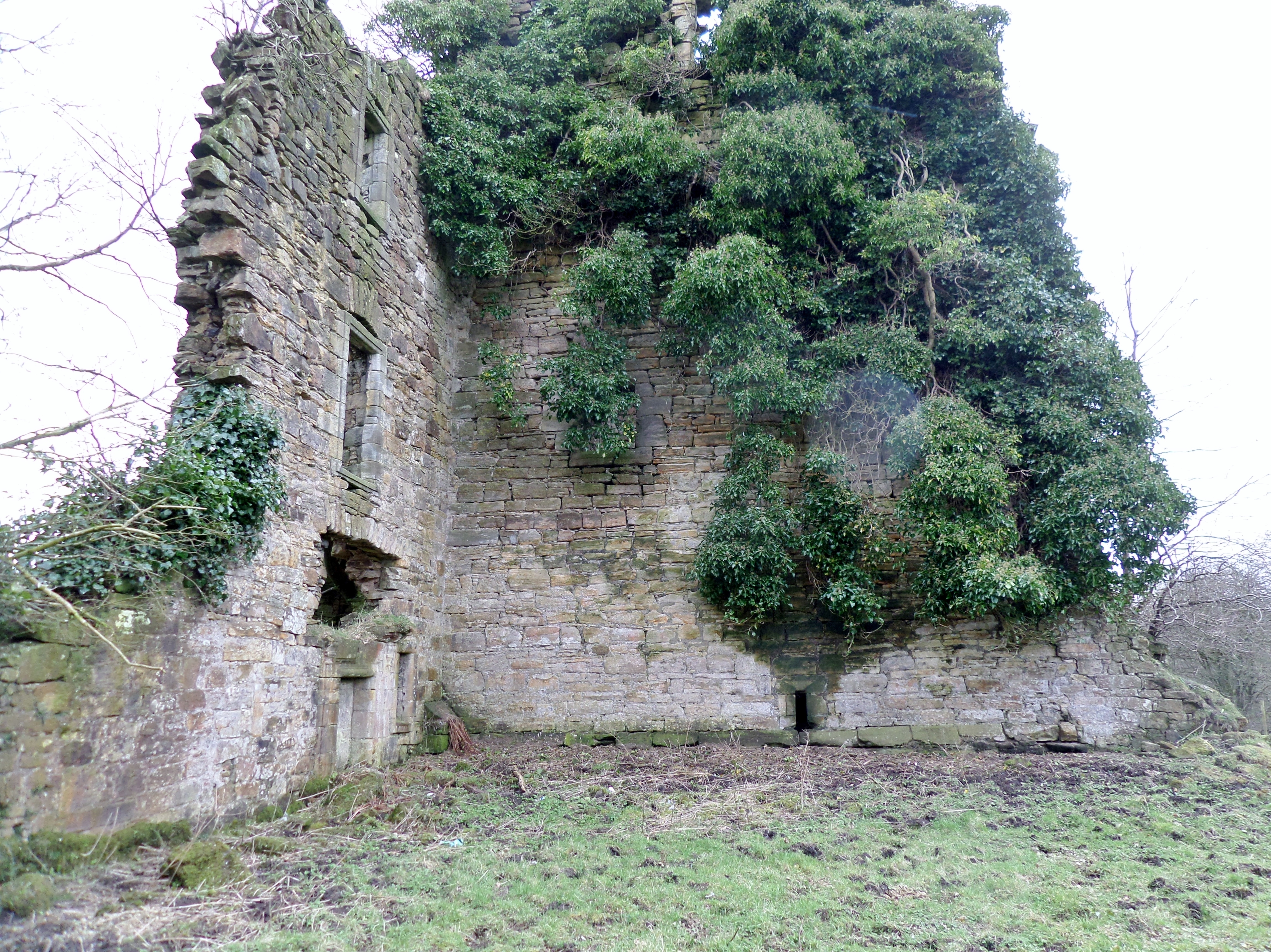 Kilbirnie Place - the courtyard area between the keep and the manor house. North Ayrshire, Scotland.